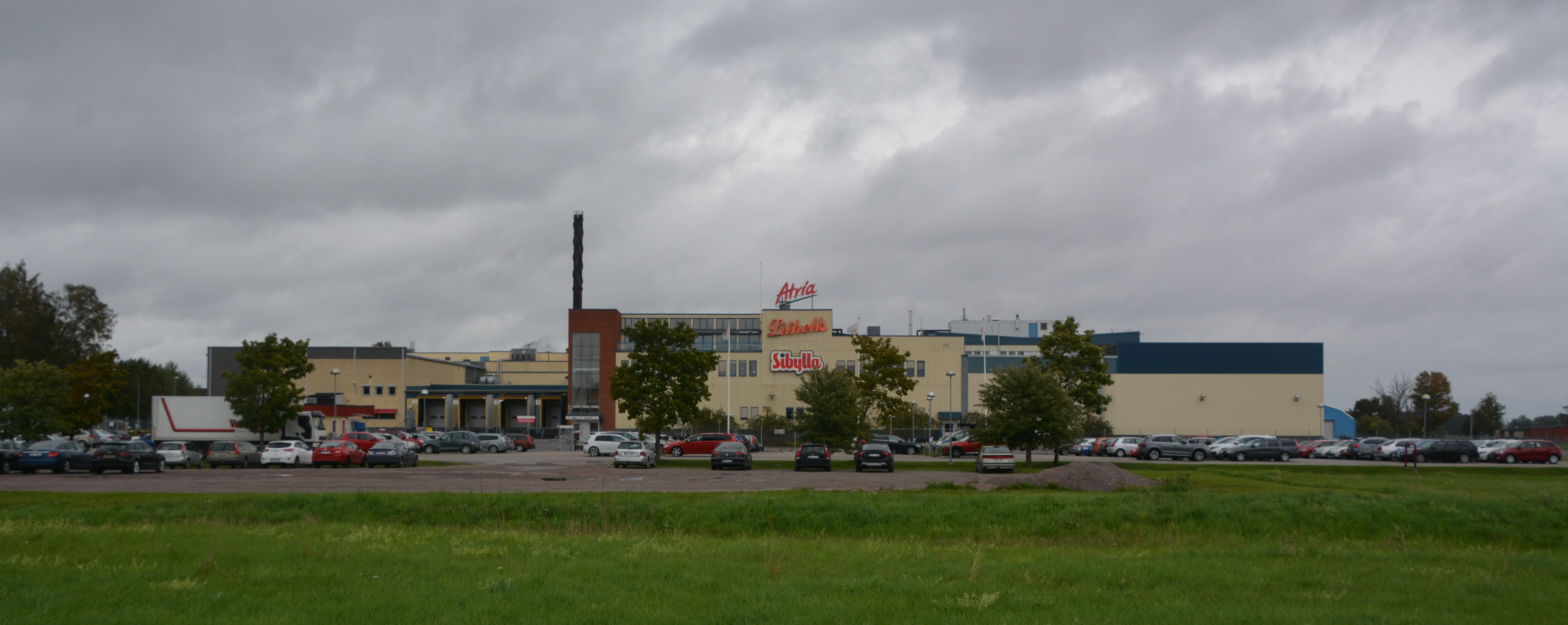 Atria factory at Sköllersta, Sweden